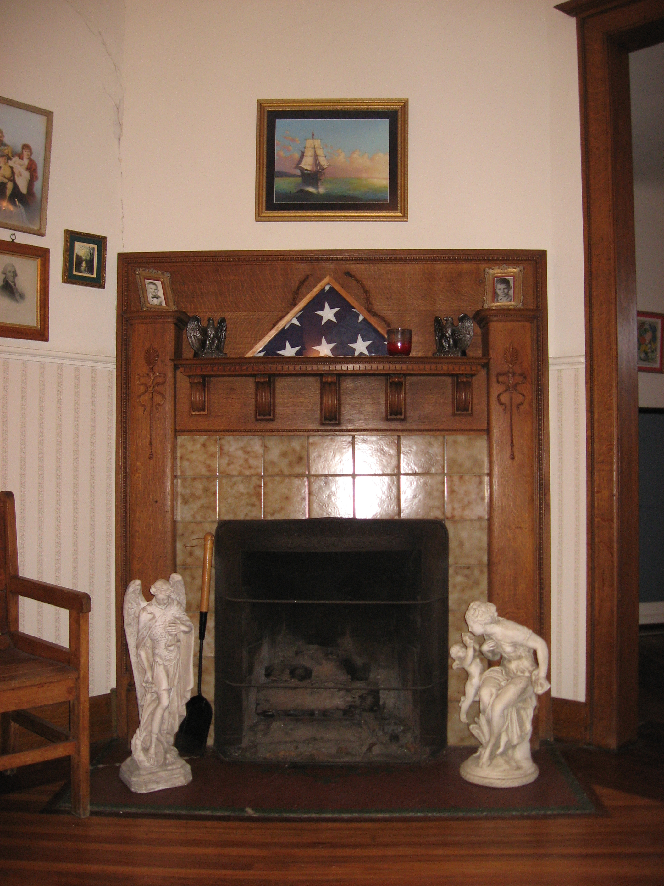 Fireplace in the living room of the John L. Nichols House, located at 820 N. College Avenue in Bloomington, Indiana, United States. Built in 1900 and since converted into a lawyer's office, it is listed on the National Register of Historic Places.